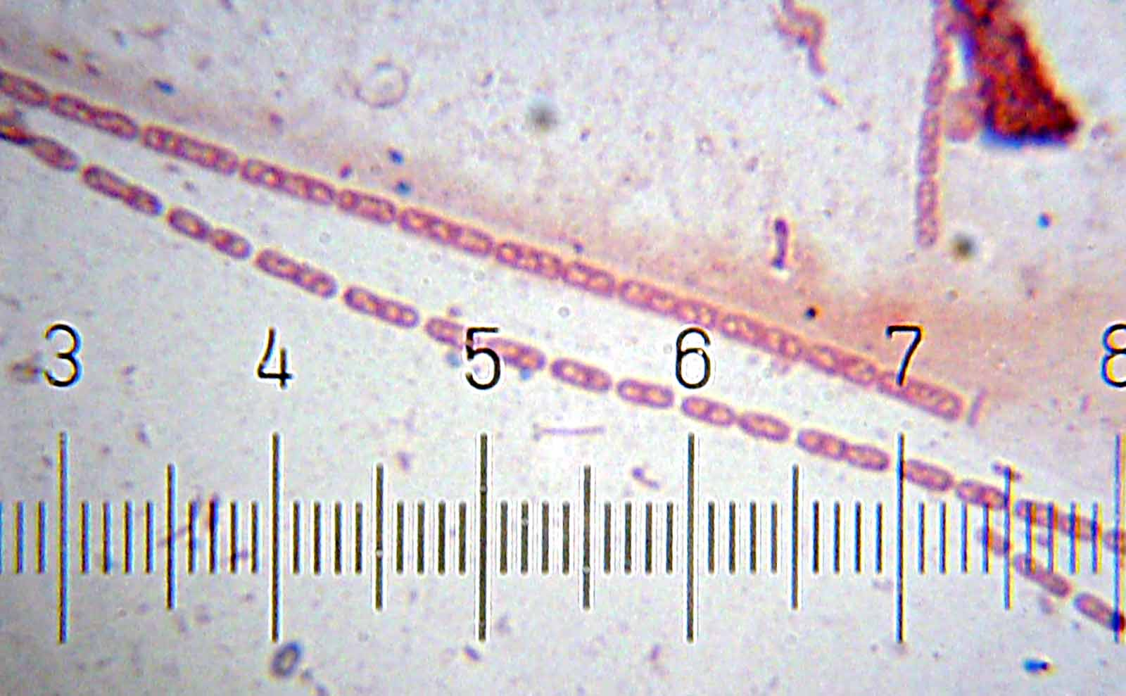 Some streptobacilli, from water standing in a gutter near my home. 100× objective, 15× eyepiece; numbered ticks are 11 µM apart. Each pixel in the full-sized version of this image represents a 0.038 µM square. Gram-stained.